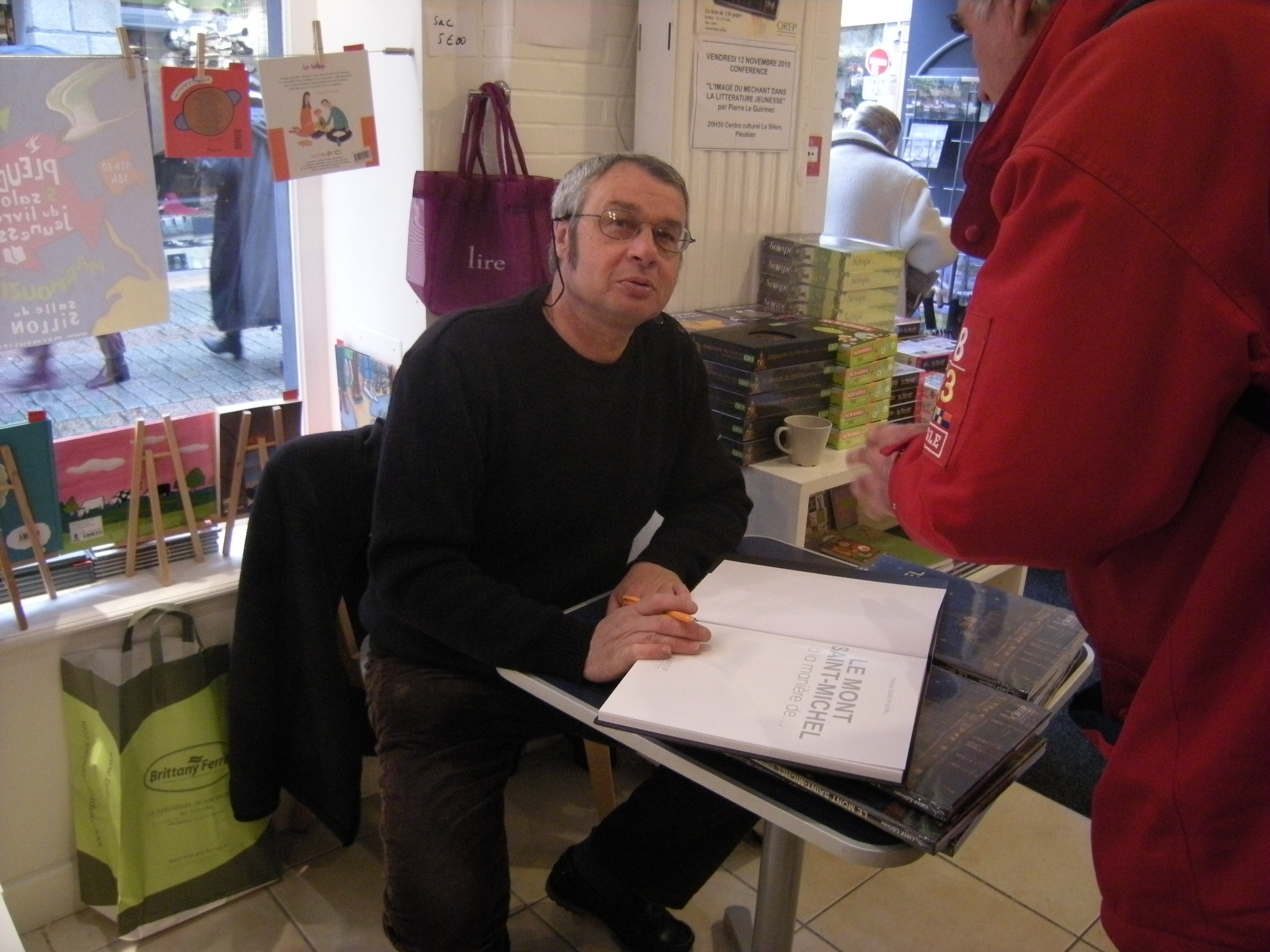 François Jouas-Poutrel, french painter and Les Roches-Douvres lighthouse keeper during 21 years, signing his last book Le Mont Saint-Michel à la manière de... in Librairie du renard, Paimpol, 13 november 2010